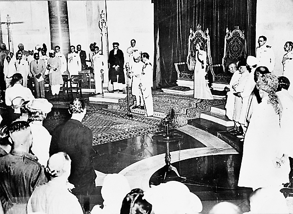 Prime Minister Nehru being sworn in by Lord Mountbatten, August 15, 1947 (downloaded July 2004)